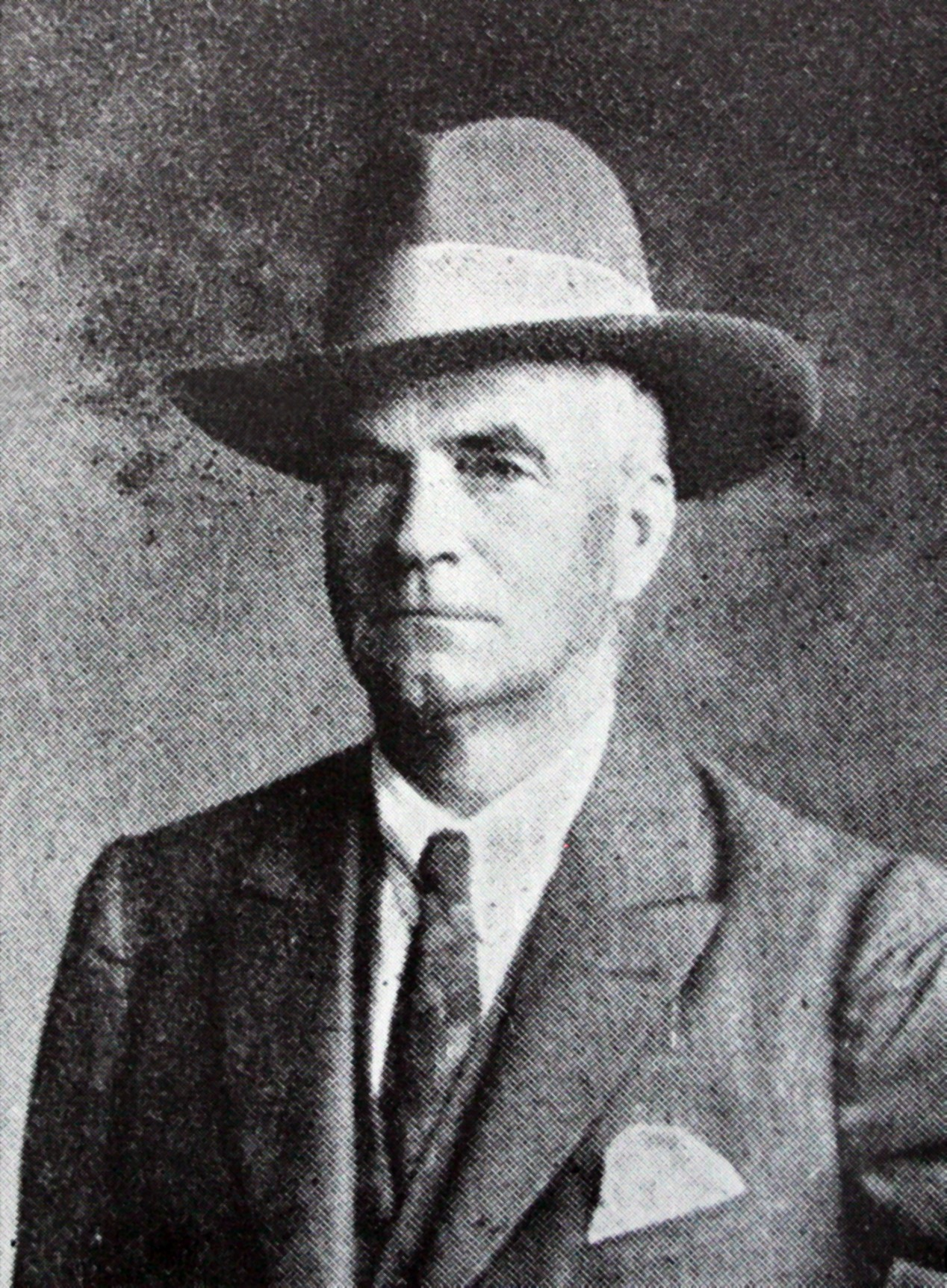 Image of John Muir, South African doctor, naturalist and cultural historian